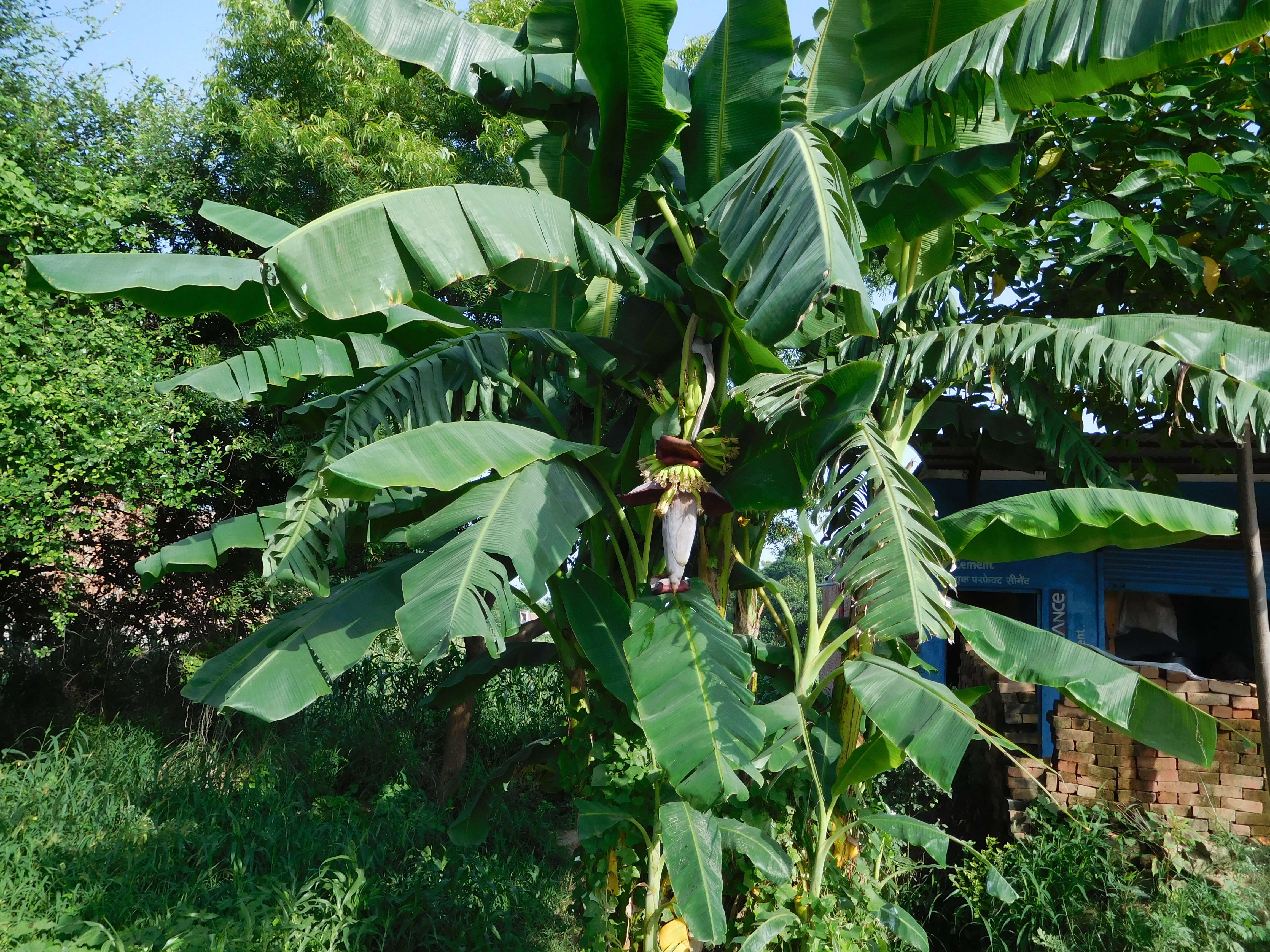 Plant of banana with its flower